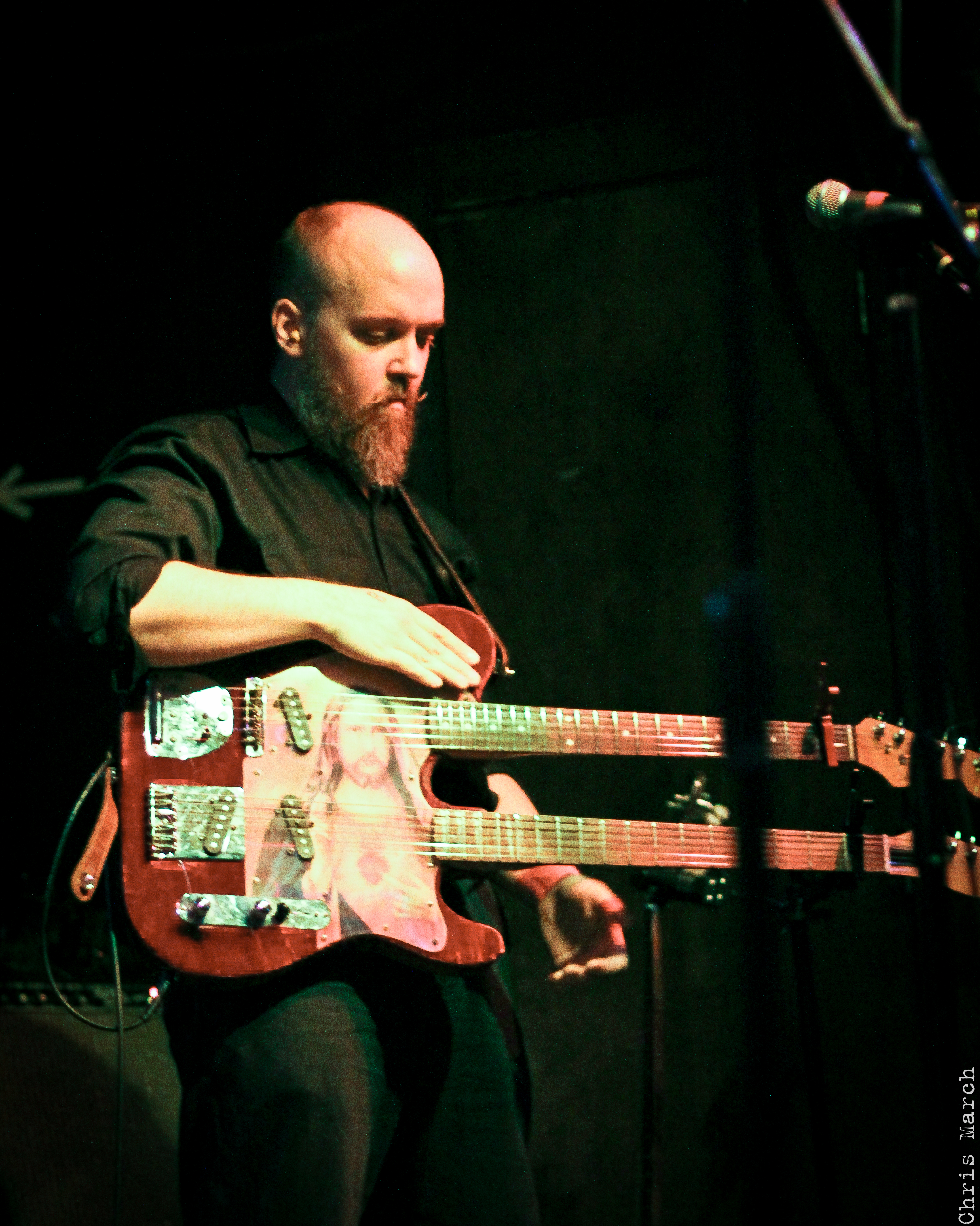 Slim Cessna's Auto Club at Great Scott Nov 7 2011